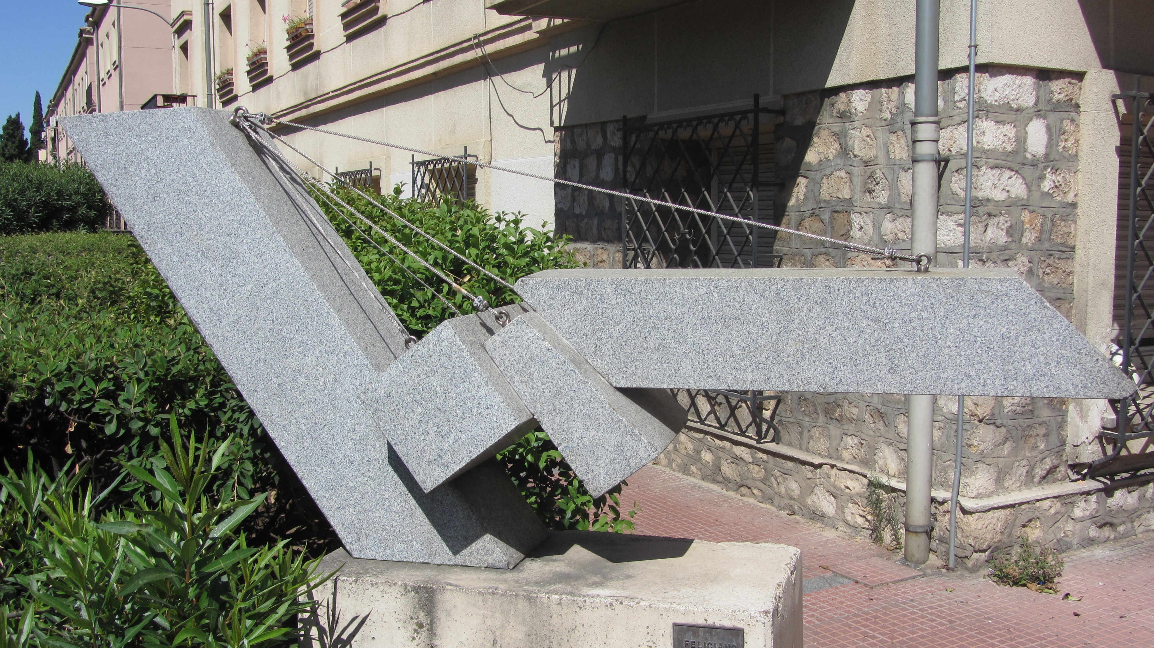 Feliciano sculpture at the Museum of Outdoor Sculpture of Alcala de Henares (Community of Madrid - Spain).